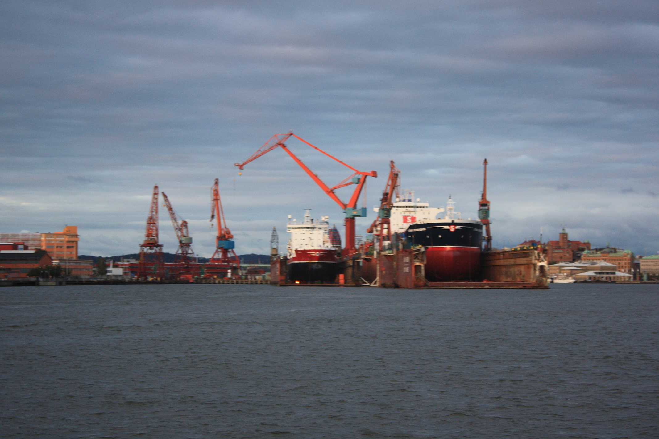 Floating drydock in Göteborg